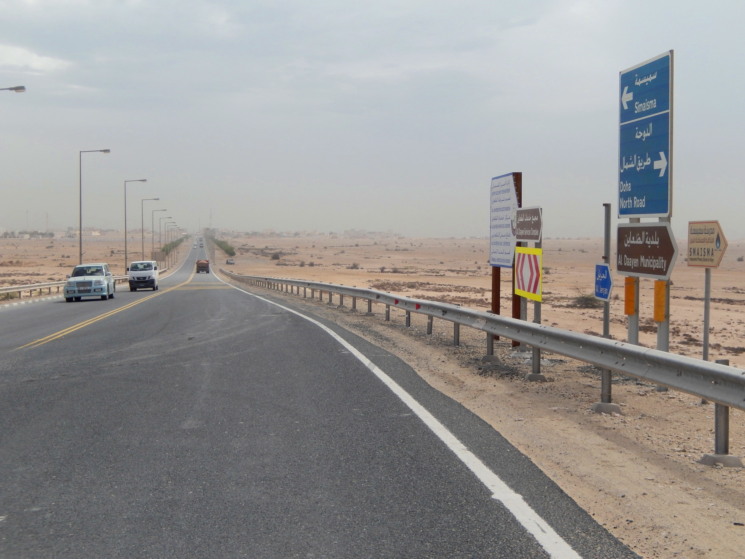 Entry road into Simaisma, a coastal town in the Al Daayen municipality, eastern Qatar. Note the signposts to the various services of the Al Daayen (Al Dayeen) municipality. Note also the signpost with Simaisma spelled as Smaisma. Other spellings encountered are Sumaismah and Sumaysimah.